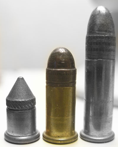 Three bullets (A .22 CB cap, .22 CB short, and .22 Long Rifle)